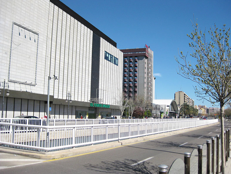 Avinguda de Ramón Menéndez Pidal, Valencia, Spain. Avinguda de Ramón Menéndez Pidal, València, País Valencià.